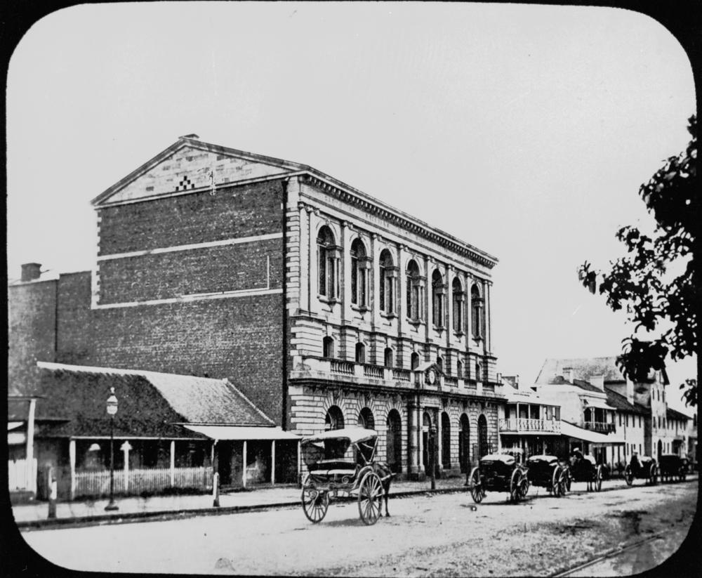 Brisbane's first Town Hall, ca. 1870. Horse drawn carts and carriages move past the old Brisbane Town Hall, ca. 1870. To the the extreme right are the old convict barracks. The building was commenced in 1864 and completed in 1867. The architect was William Coote.